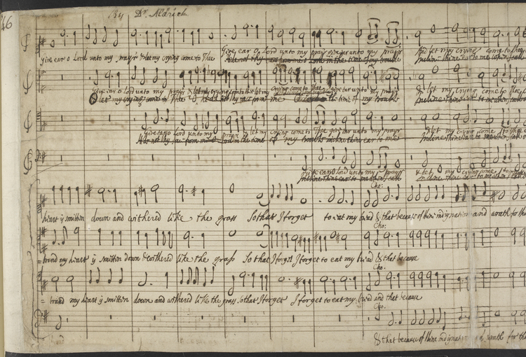 A handwritten page from the manuscript score of Give ear, O Lord, in the author's own hand. Held and digitised by the British Library.